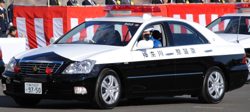 Toyota Crown Police car.